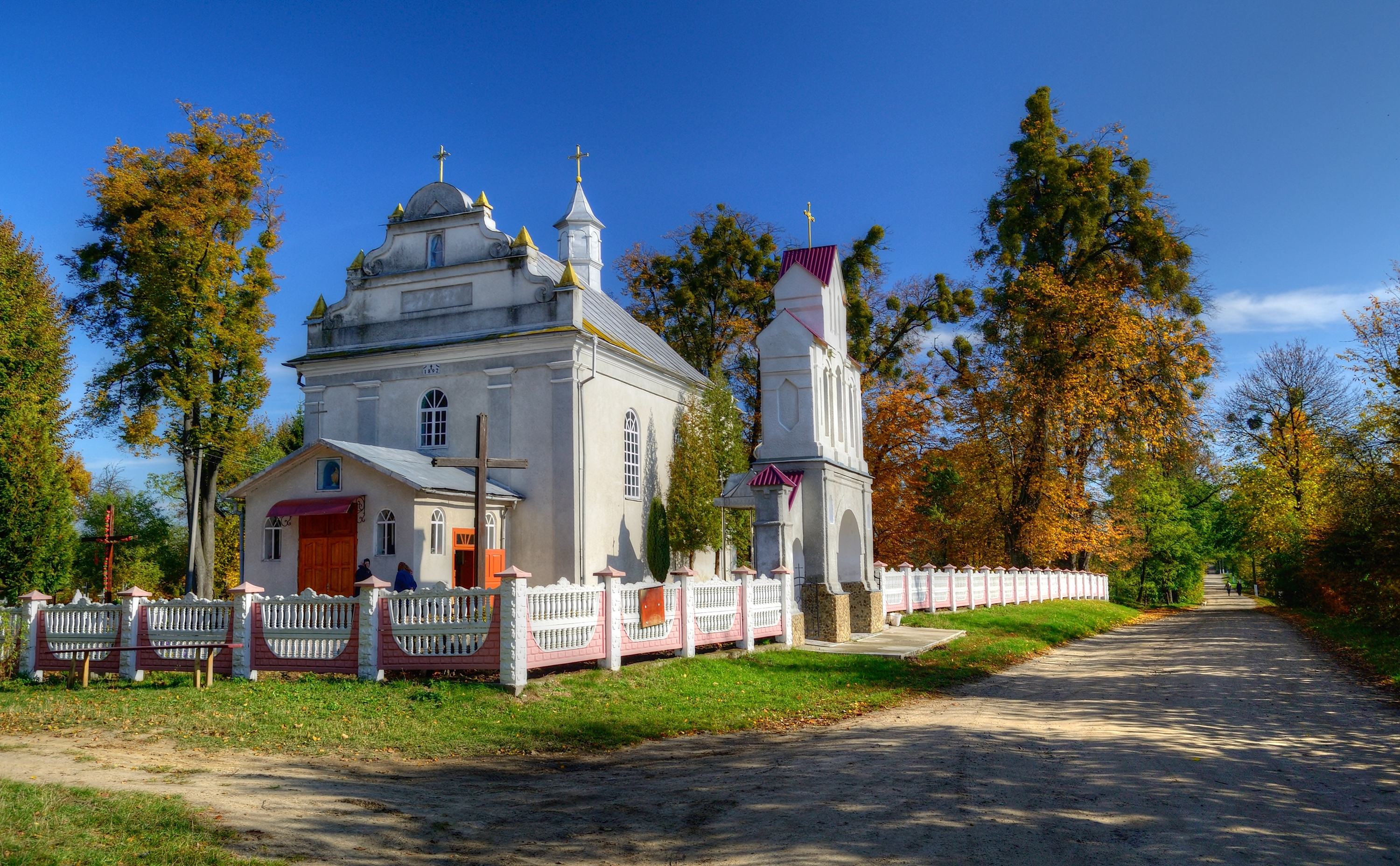 Луковець-Вишнівський 1892